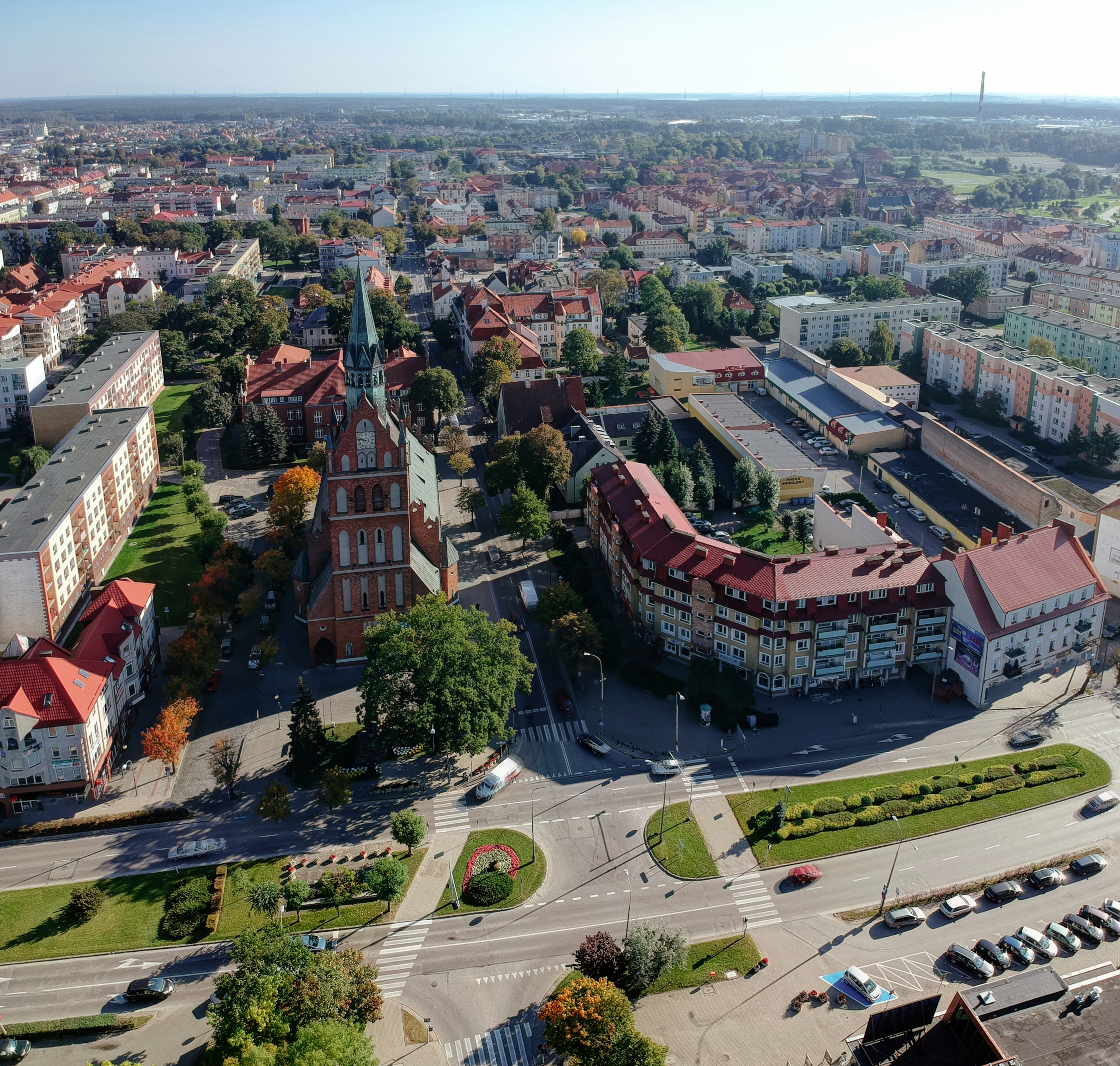 Ełk - Wojsko Polskie and Armia Krajowa streets intersection - September 2017